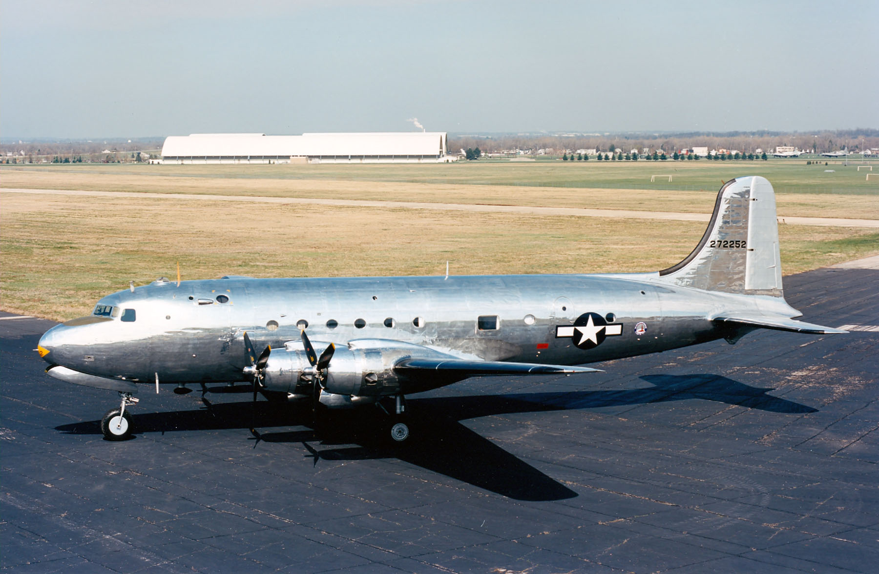 Photograph of U.S. President Harry S. Truman's airplane, a Douglas VC-54C Skymaster (s/n 42-107451) nicknamed "The Sacred Cow". The aircraft is today as "42-72252" on display at the National Museum of the USAF. Originally 42-72252 was C-54A-15-DC (c/n 10357/DC88) missing since 11 November 1944 over the South Atlantic. This serial number was used by the VC-54C 42-107451 when it flew President Franklin D. Roosevelt to the Yalta Conference in 1945 (probably out of security reasons).